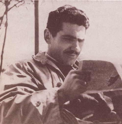 The Italian educator and, later, partisan Primo Visentin (1913-1945)